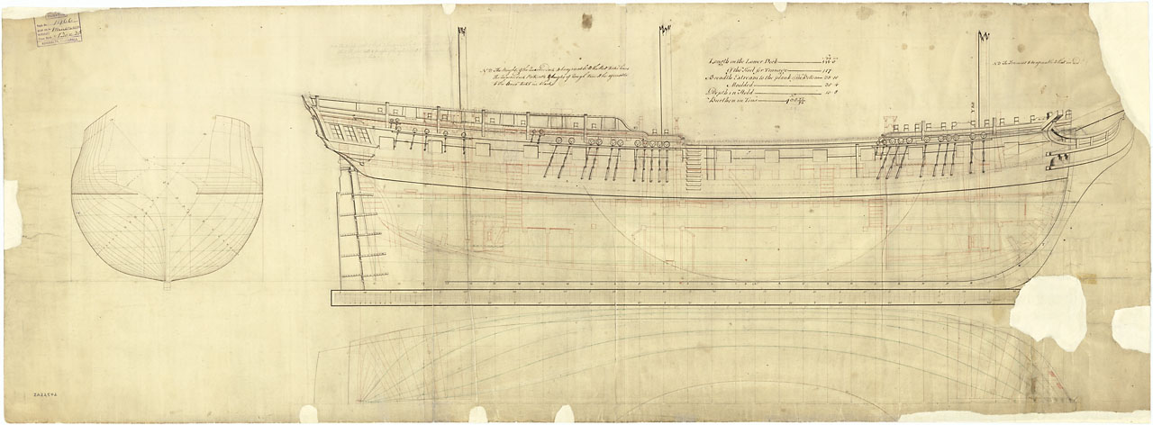 MINERVA 1780 lines & profile